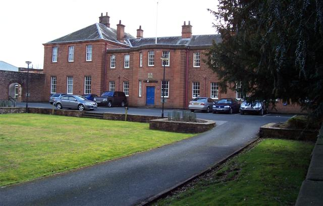 Carleton Hall. Cumbria constabulary headquarters at the moment.